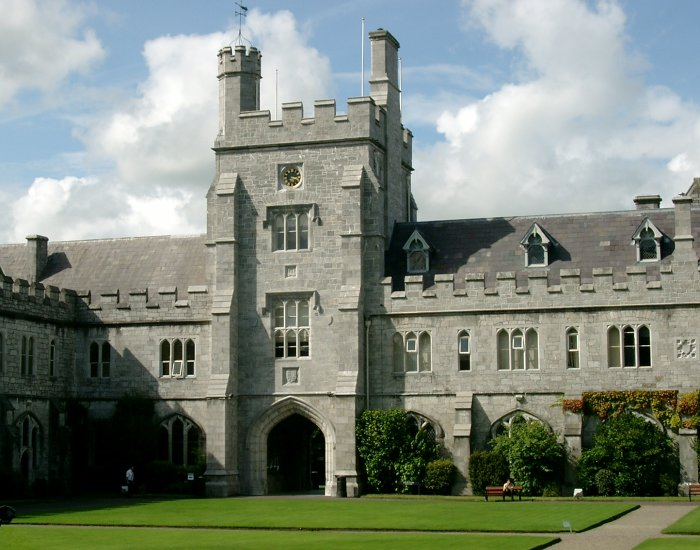 Quadrangle at University College Cork